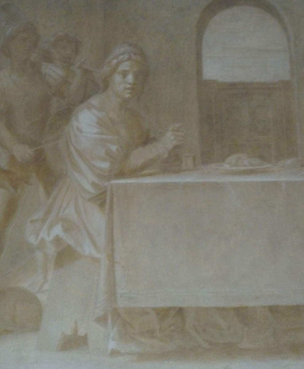 Andrea del Sarto: John the Baptist grisaille fresco series: detail of painting of Herod's banquet